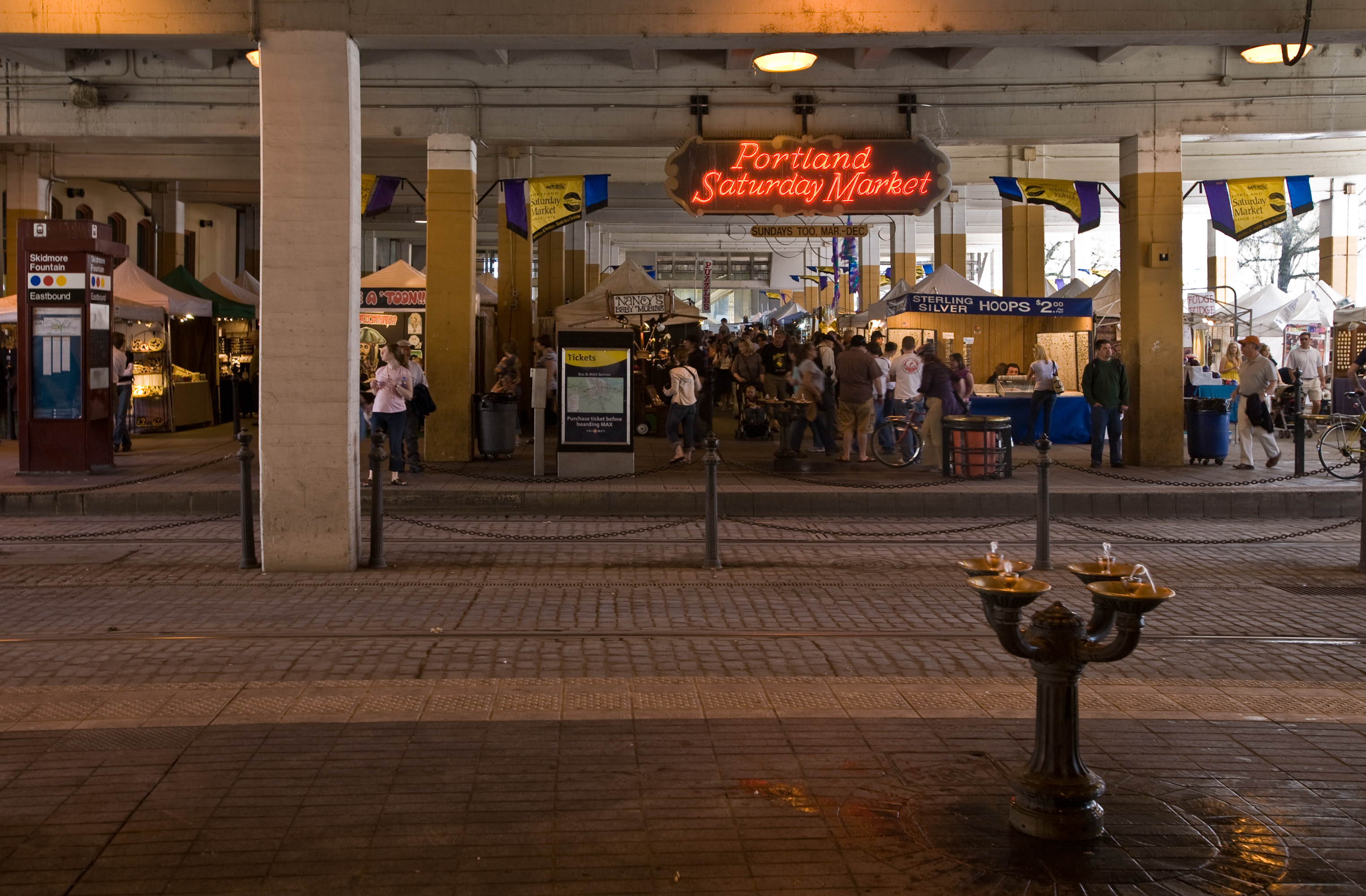 The Portland Saturday Market. The train tracks in the foreground are for the MAX light rail.